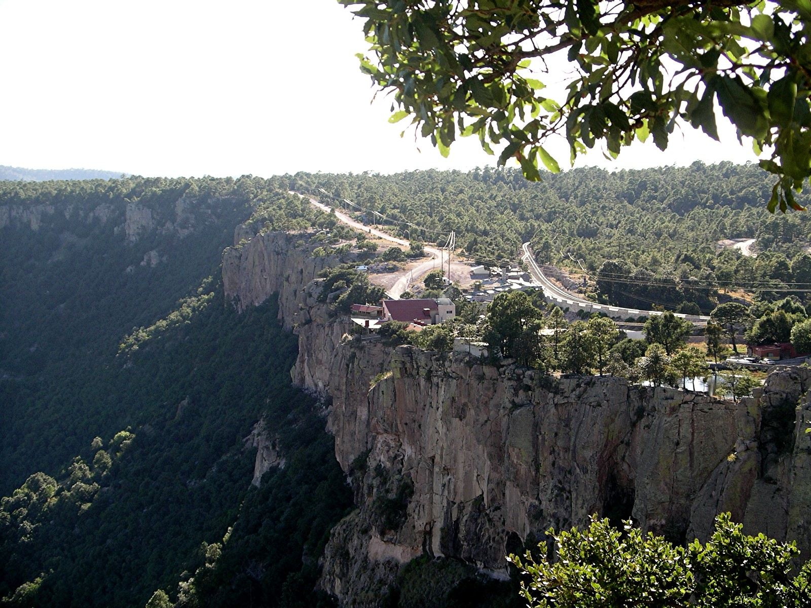 The hotel and RR at Divisadero, overlooking Copper Canyon